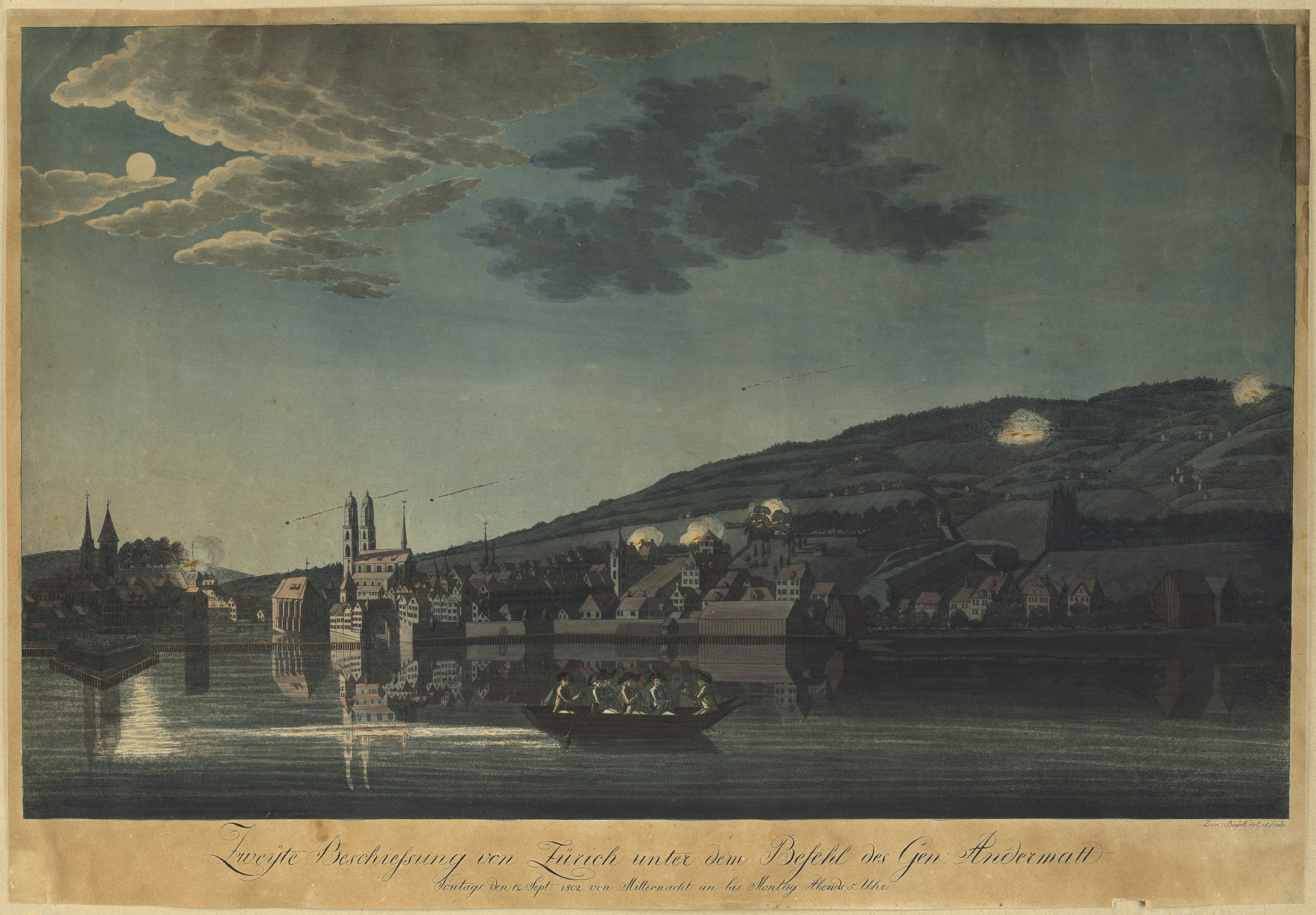 Bombardment of Zurich by the Helvetic General Andermatt, 12-13. From September 1802 until midnight on Monday evenings 5 clock. (Translator's note: General Joseph Leonz Andermatt, likely the Second Battle of Zurich.)